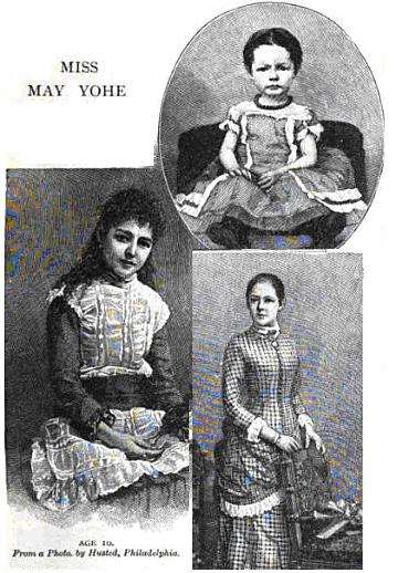 Actress May Yohe as a child